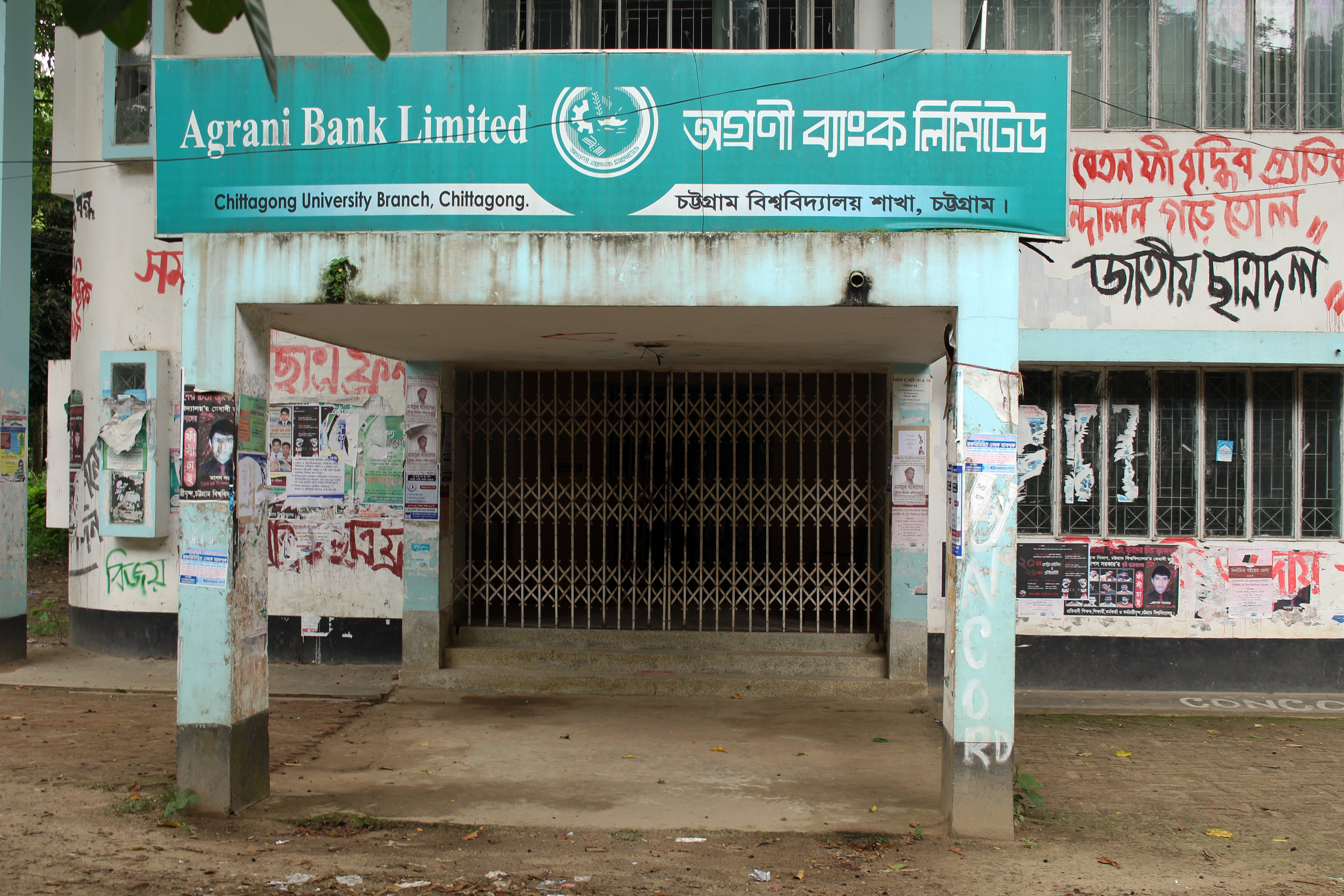 Agrani Bank Limited, Chittagong University Branch, Chittagong University Road, Chittagong.